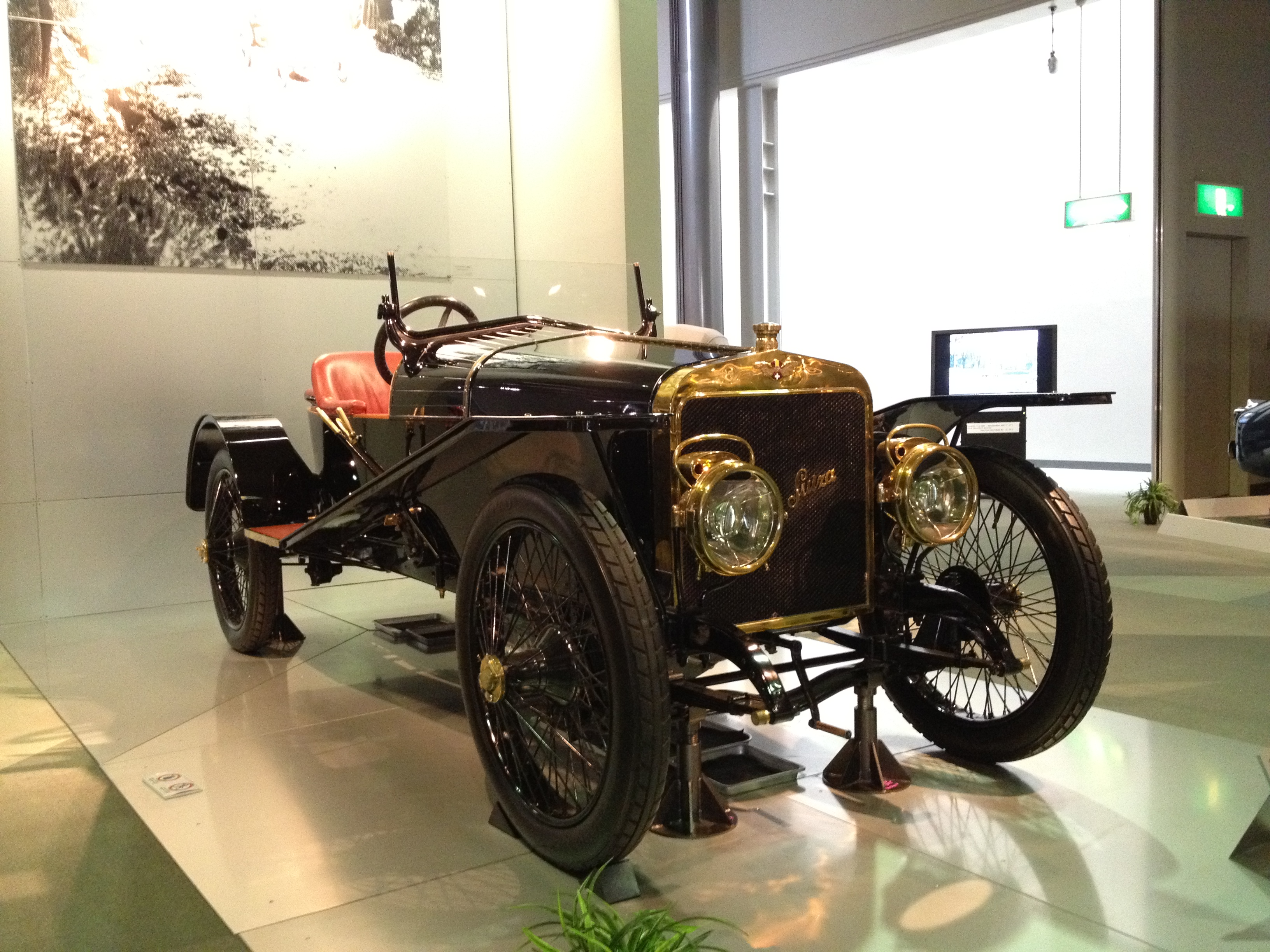 Hispano-Suiza Alfonso XIII, 1912 Toyota Automobile Museum This photo was taken on February 2, 2012 in Nagakute-cho, Aichi Prefecture, JP, using an Apple iPhone 4S.